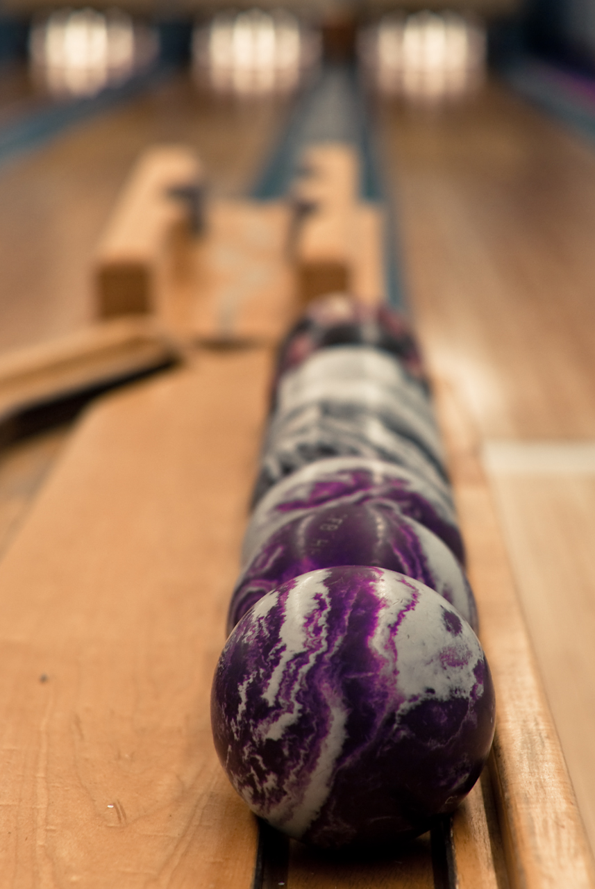 Five-pin bowling balls in Halifax, Nova Scotia